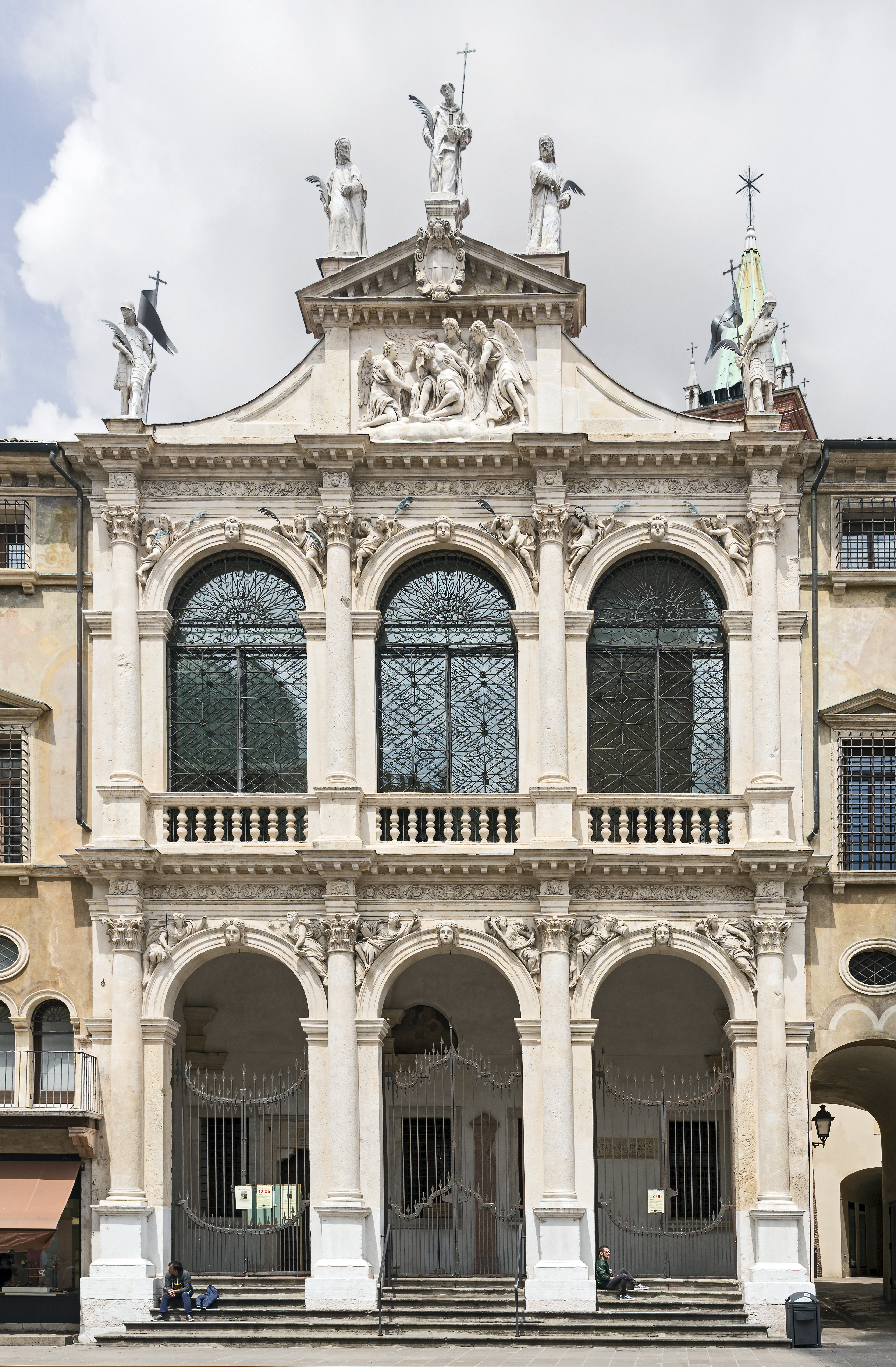 The church of San Vincenzo is a historic Catholic worship site in Vicenza, whose construction with subsequent extensions dates from the end of the 14th century to the first half of the eighteenth century. The facade overlooks Piazza dei Signori, in front of the Palladian Basilica, and is inserted into the center of the Palazzo del Monte di Pietà, interrupting its uniform texture.